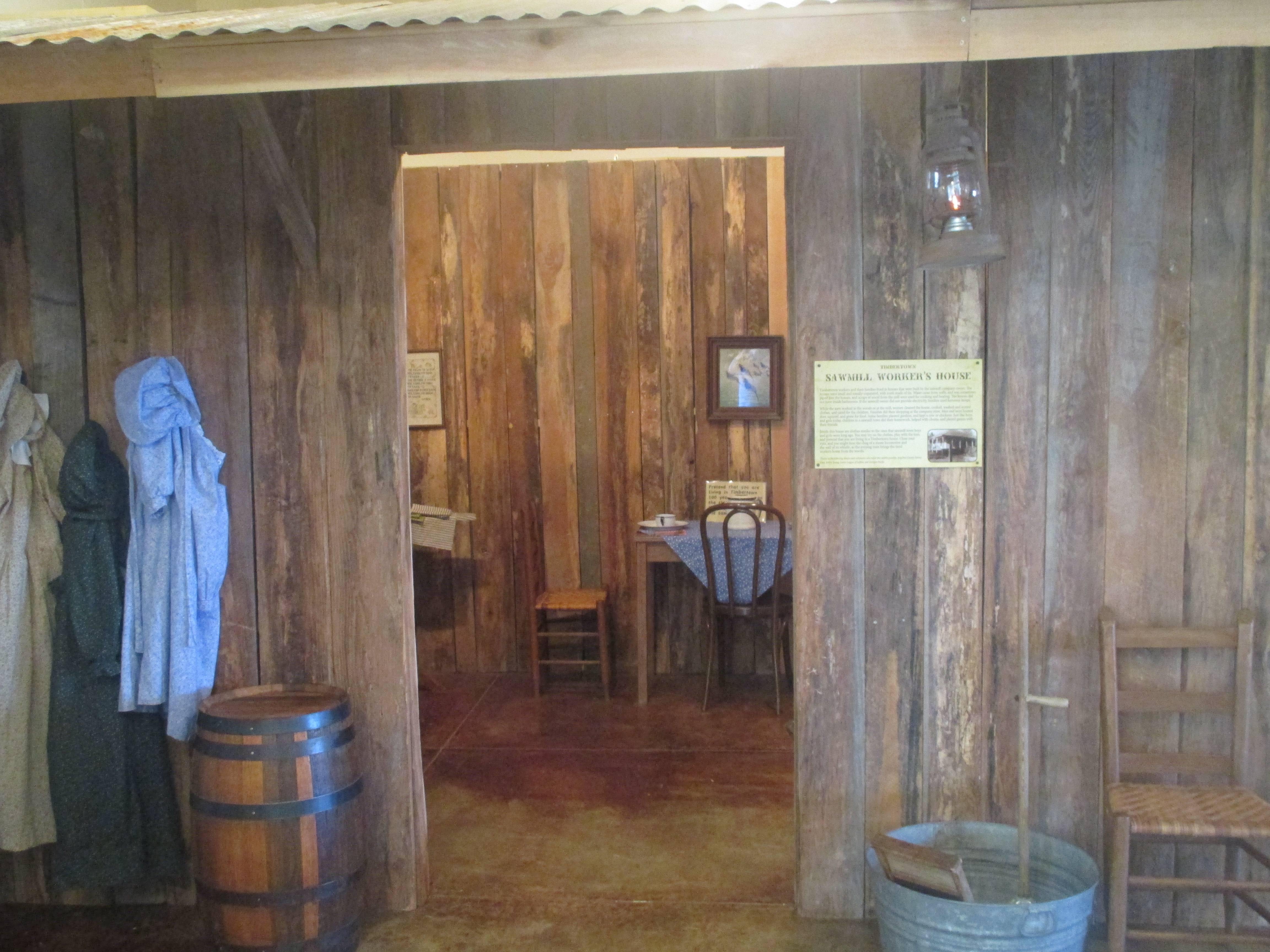 I took photo with Canon camera of sawmill worker's house at Texas Forestry Museum in Lufkin, TX.